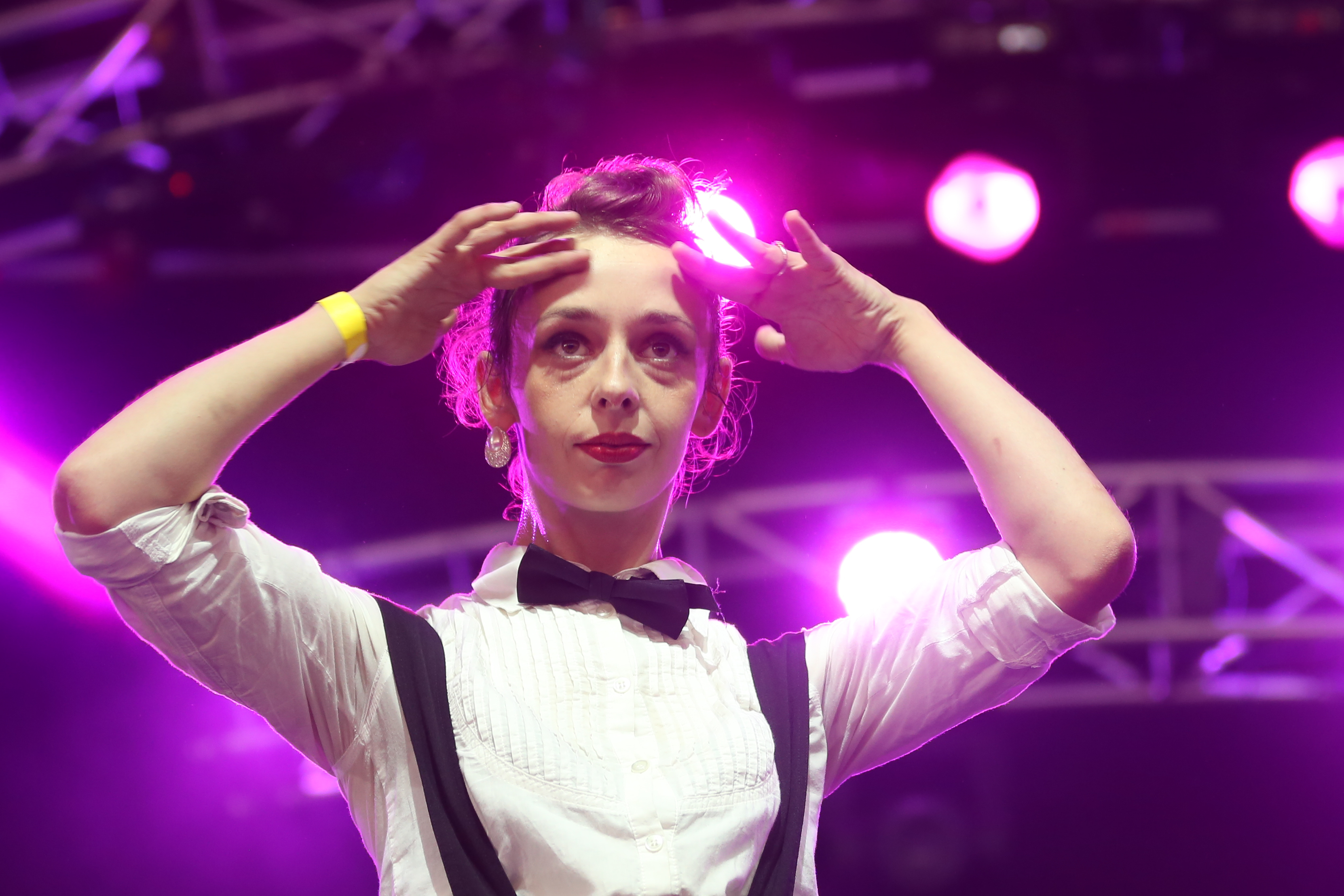 Przystanek Woodstock in 2016.